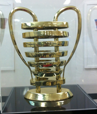 Taça Copa do Ne